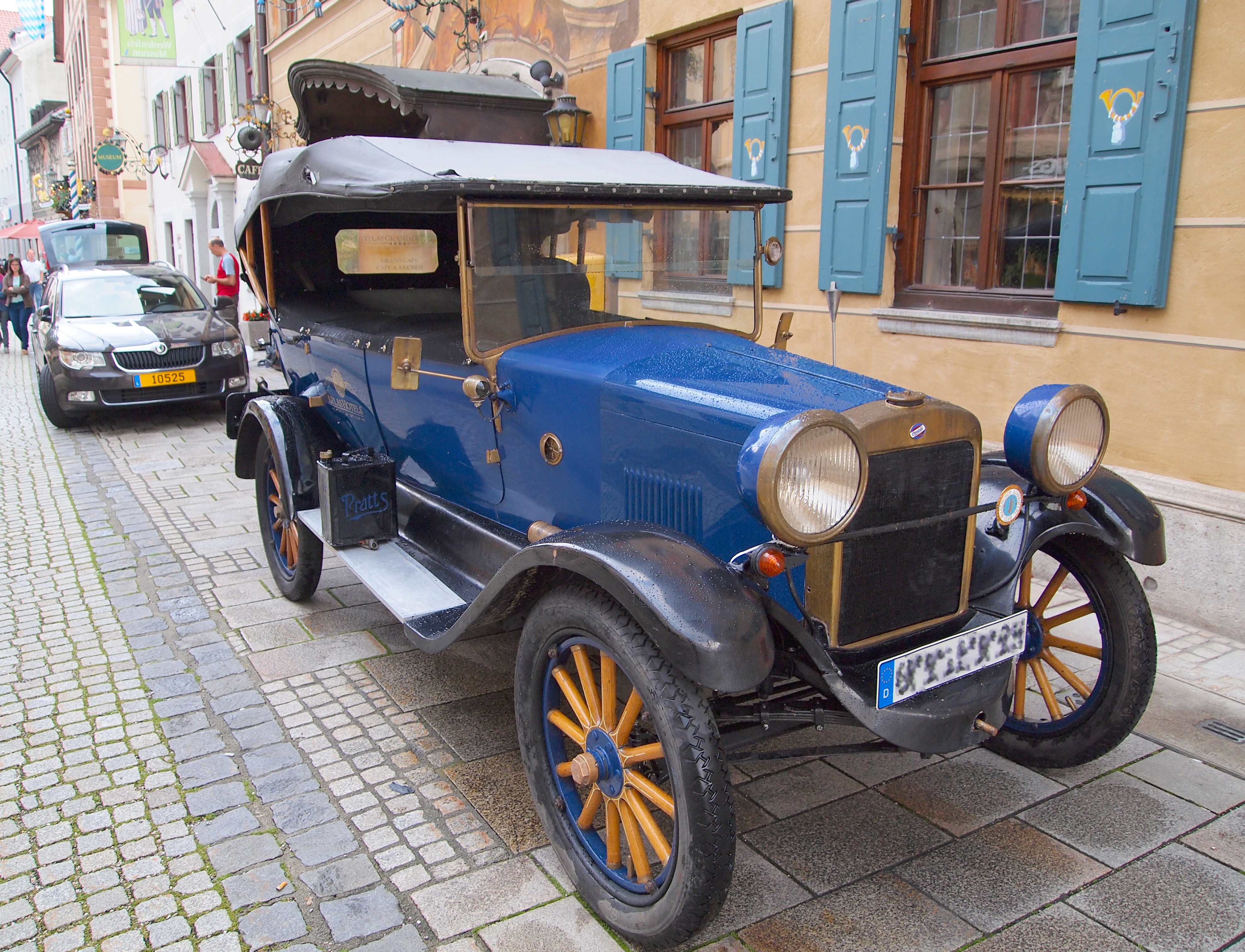 Early 1920s Overland automobile (US-made) in Garmisch-Partenkirchen. This photograph was taken with an Olympus E-PL1